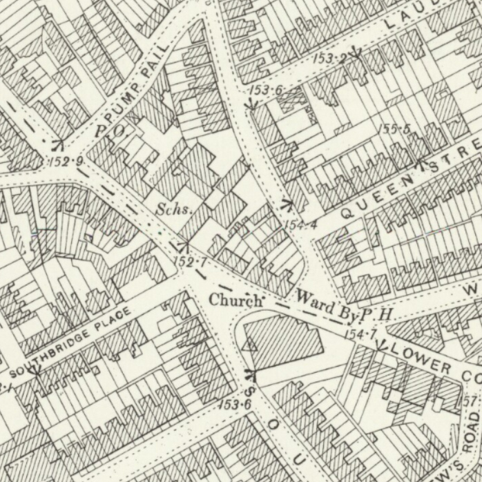 This map, surveyed in 1895 and published in 1897 shows the location of the original school rooms of St Andrew's school. The building to the right of the school on this map was the one expanded into for the second school. The church is St Andrew's church on Southbridge road.